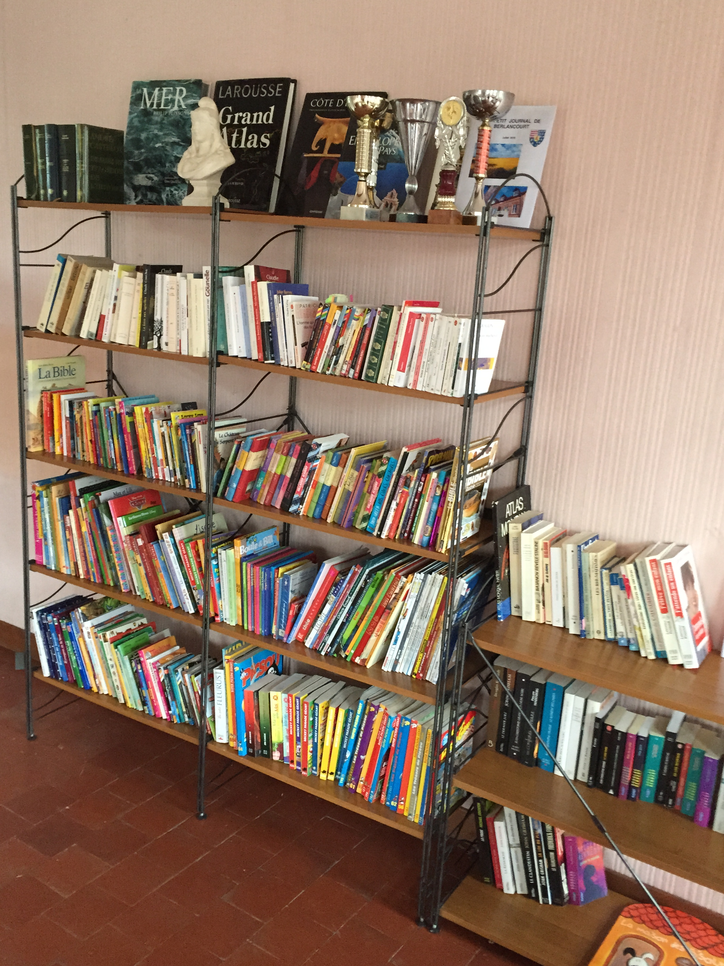 Berlancourt (Aisne) coin bibliothèque des enfants